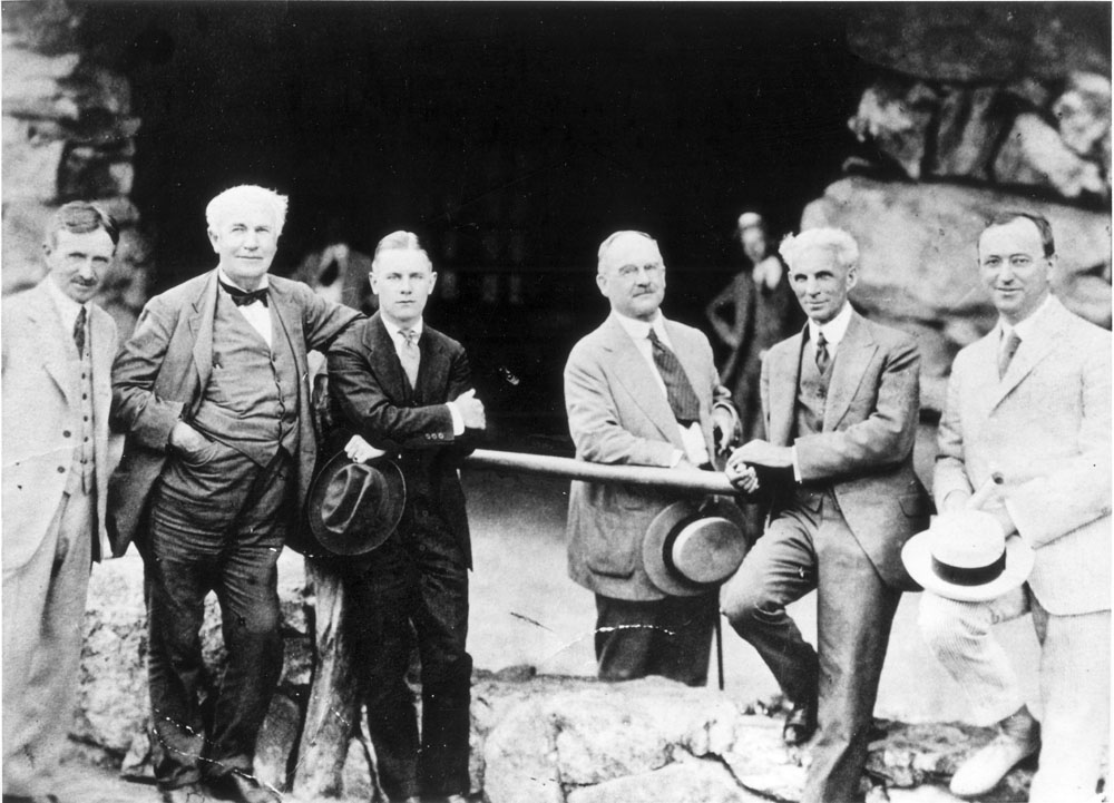 Photograph of famous visiting guests at the Grove Park Inn, Asheville, North Carolina, in 1918. From left are Harvey Firestone Sr.; Thomas A. Edison; Harvey Firestone Jr.; E. W. Grove, Henry Ford; and Fred Seely, son-in-law of Edwin Wiley Grove, builder of the Grove Park Inn. Image courtesy of the University of North Carolina at Asheville.